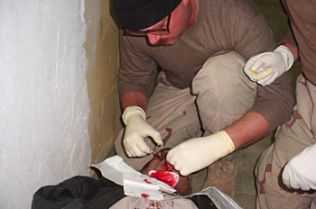 Abu Ghraib 85. 5:17 p.m., Nov. 14, 2003. CPL GRANER applies sutures to the chin of a detainee. This detainee is suspected to be the General that SPC HARMAN stated in her statement, that CPL GRANER pushed into wall. SOLDIER(S): CPL GRANER; SGT WALLIN. All caption information is taken directly from CID materials. U.S. Army / Criminal Investigation Command (CID). Seized by the U.S. Government.